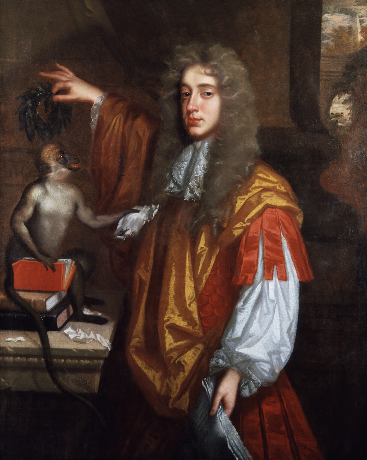 John Wilmot, 2nd Earl of Rochester. Period copy (National Portrait Gallery, London) of a portrait attributed to Jacob Huysmans (in a private collection).